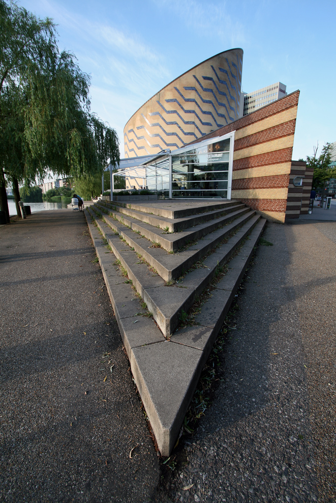 Tycho Brahe Planetarium, Copenhagen, Denmark. Architect: Knud Munk.